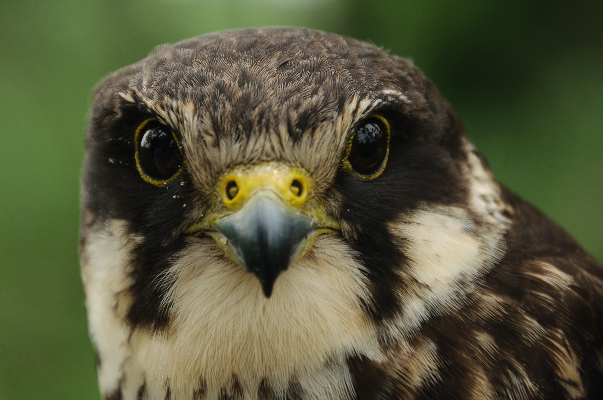 Eurasian Hobby (Falco subbuteo); location: wielkopolskie, Poland